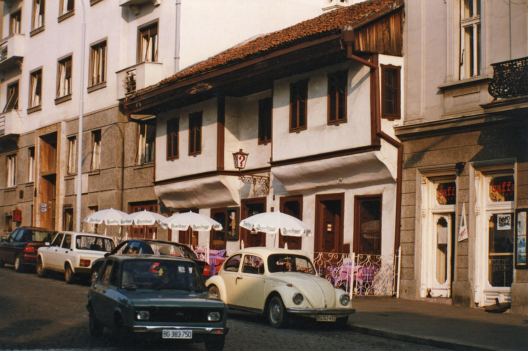 "Question mark" bar, the oldest in Belgrade, Serbia, also famous for its shortest name in the world.